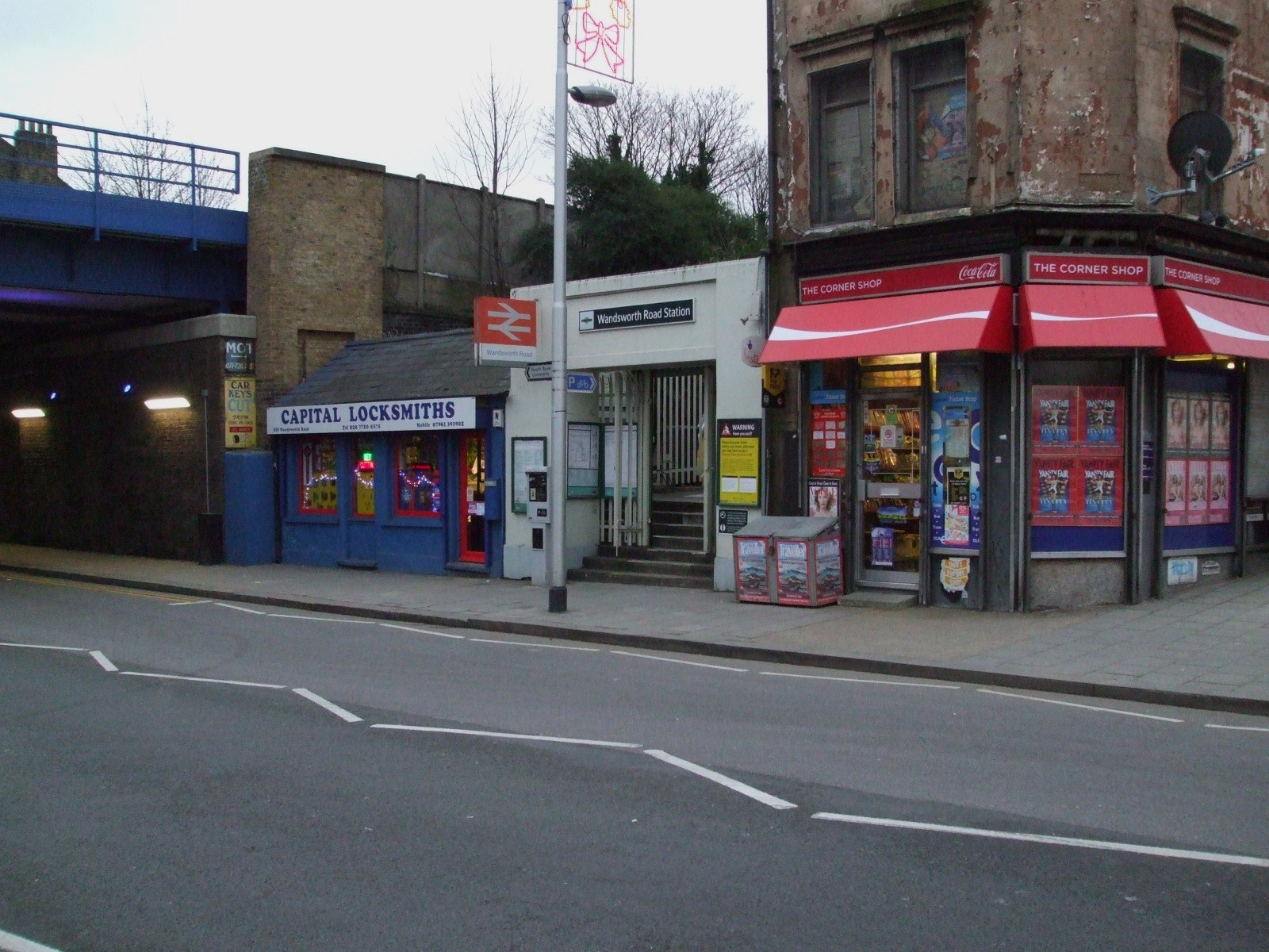 Wandsworth Road station entrance